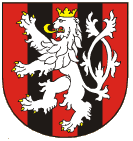 Coat of arms of Duchcov town, Teplice District, Czech Republic.